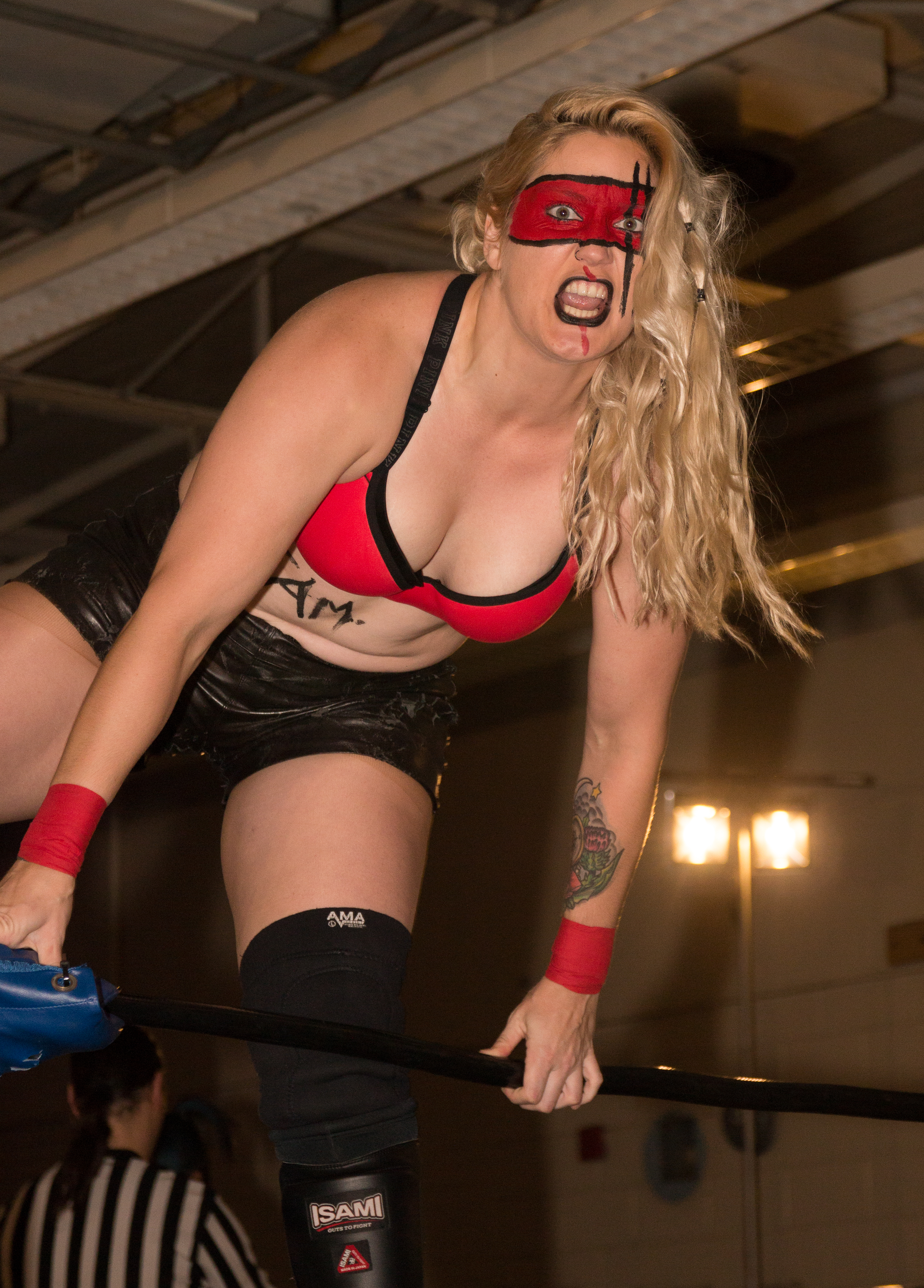 Independent wrestler Cat Power making her ring entrance at Smash Wrestling's Canusa 2016 show in Etobicoke, ON